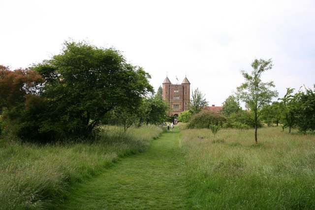 Sissinghurst - the tower from the orchard. One of the many superb vistas created by Vita Sackville-West